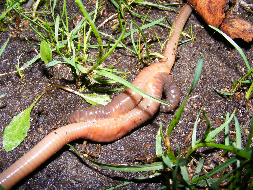 Lumbricus terrestris mating